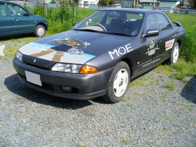 以下に挙げるGFDLライセンスの3画像を元にPhotoshopで合成 This picture is remixed some pictures in Photoshop. include 3 picture under GFDL licenced R32.JPG Wikipe-tan full length.png Wikipe-tan-in-seaside.png keywords;痛車（いたしゃ）,car,SKYLINE GT-R R32